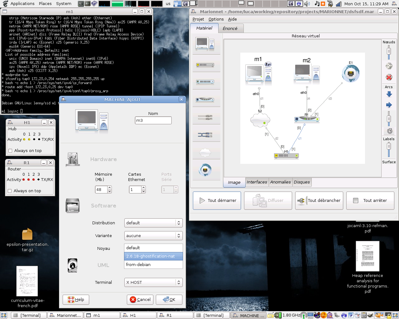 Marionnet screenshot